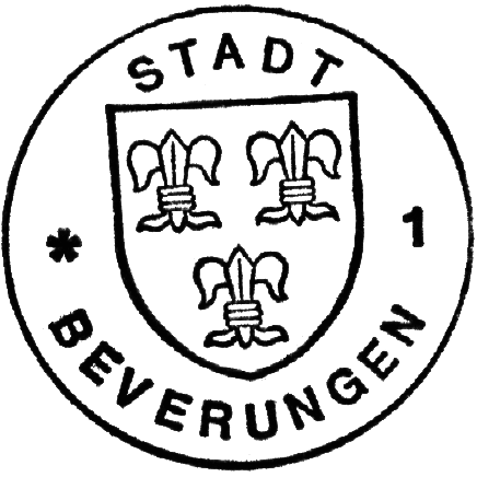 seal of the city of Beverungen